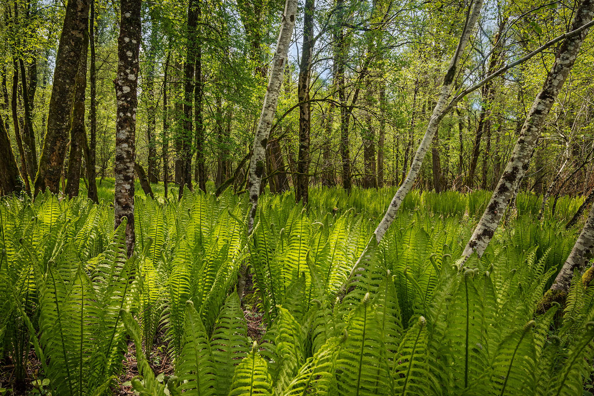 Forest with ferns in spring, delta of Tiroler Achen at Chiemsee.